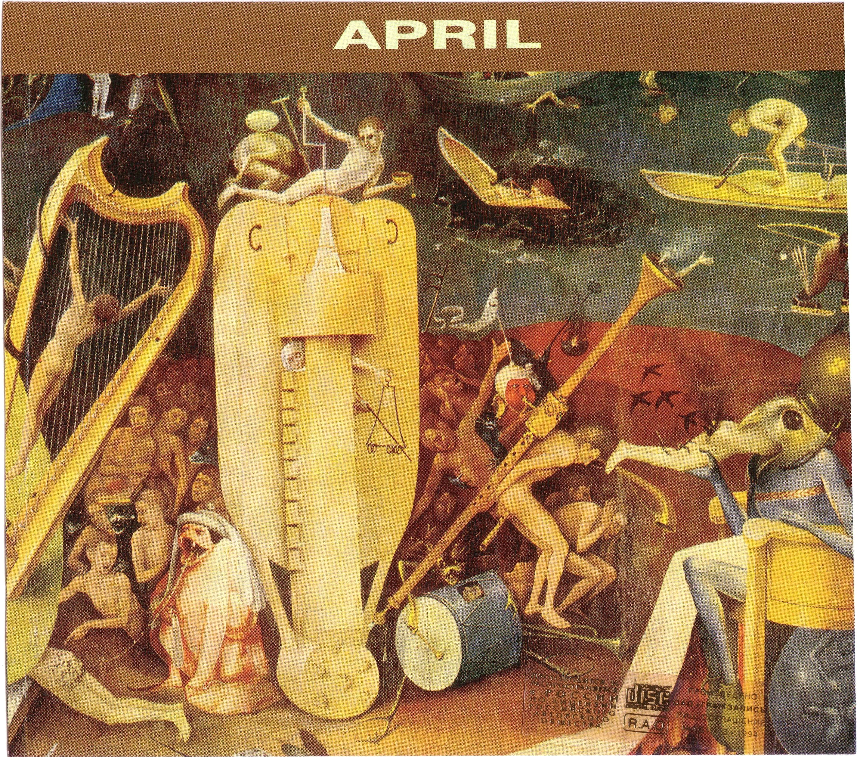 "April" Deep Purple (1969). CD "ОАО Грамзапись", Moscow, 1996. Hieronymus Bosch (1450-1516).